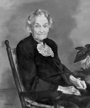 Photo of an oil painting of Mrs. Martha E. Truman, mother of former President Harry S. Truman.